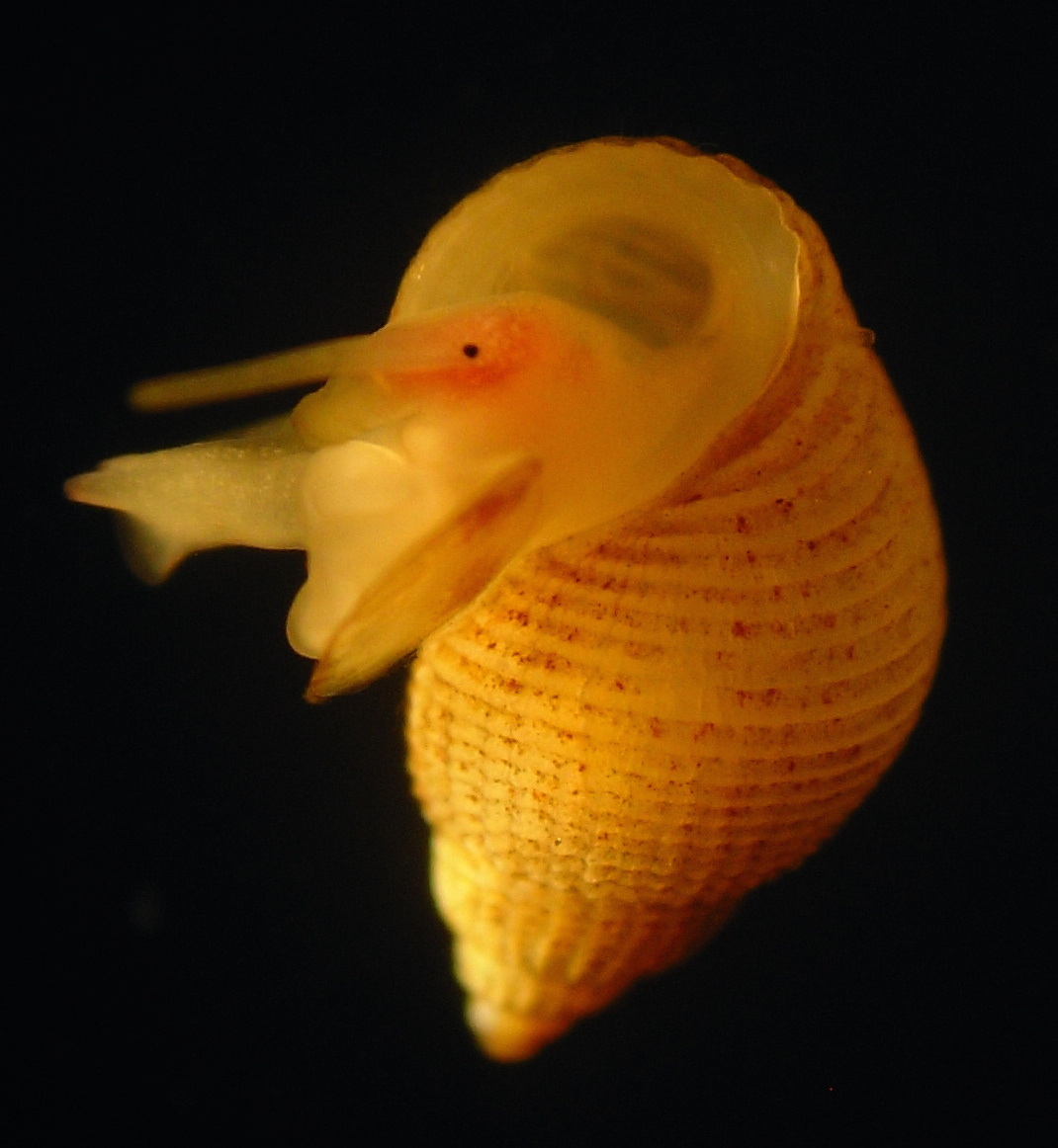 Alvania lactea. Anterior part of the body getting out of the shell, Lannic, Golfe du Morbihan, France.